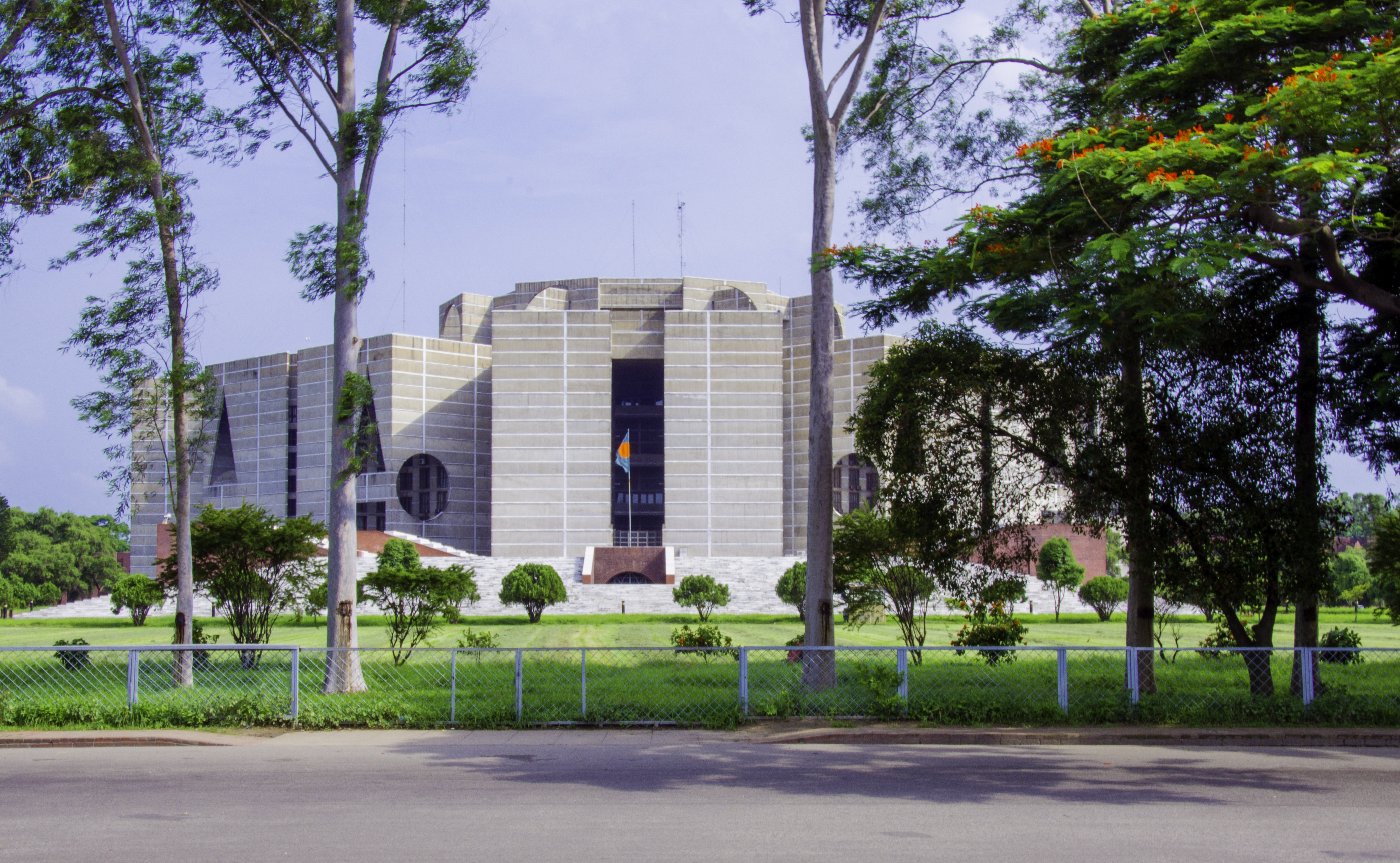 Jatiyo Sangsad Bhaban, Bangladesh.